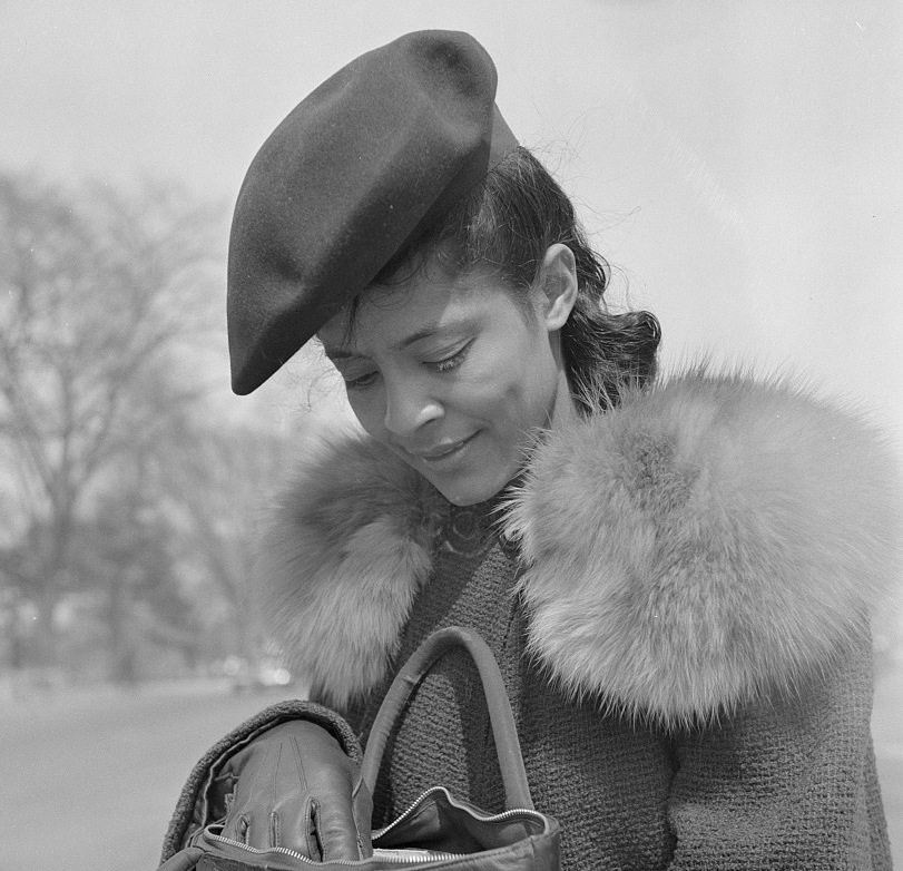 Jewel Mazique, worker at the Library of Congress, waiting for a streetcar on her way home from work. title from the original, spelling corrected. Date is approximate.